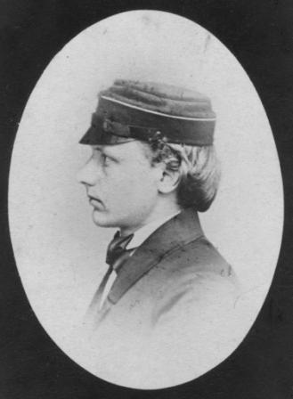 Danish inventor, Rasmus Malling-Hansen, 1835-1890. Photo from 1860.